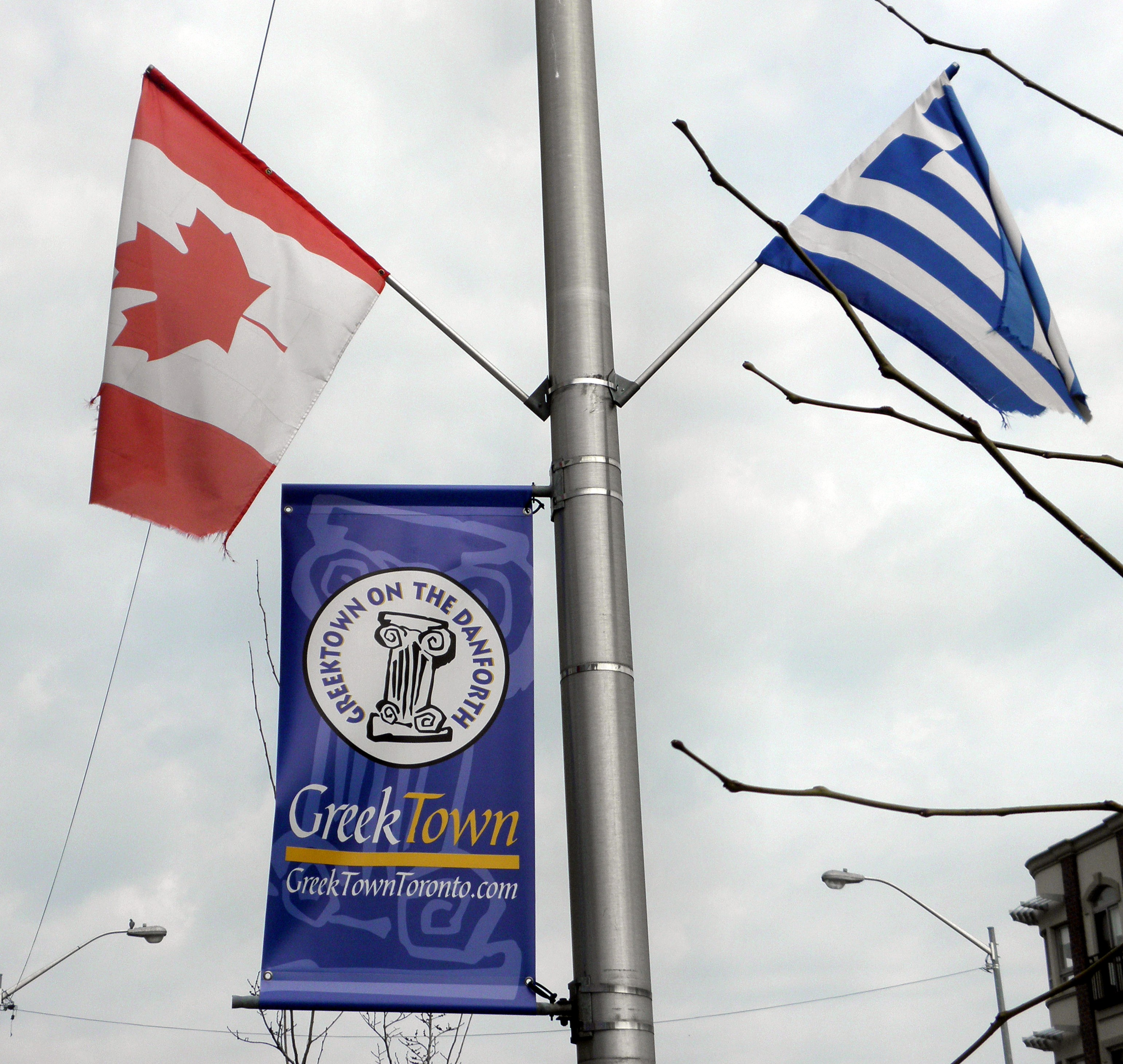 Streer banner for "GreekTown on the Danforth" , a neighbourhood and Business Improvement Area (BIA) of the city of Toronto, Ontario, Canada. It is located on Danforth Avenue, between Chester Avenue and Dewhurst Blvd., in east Toronto.